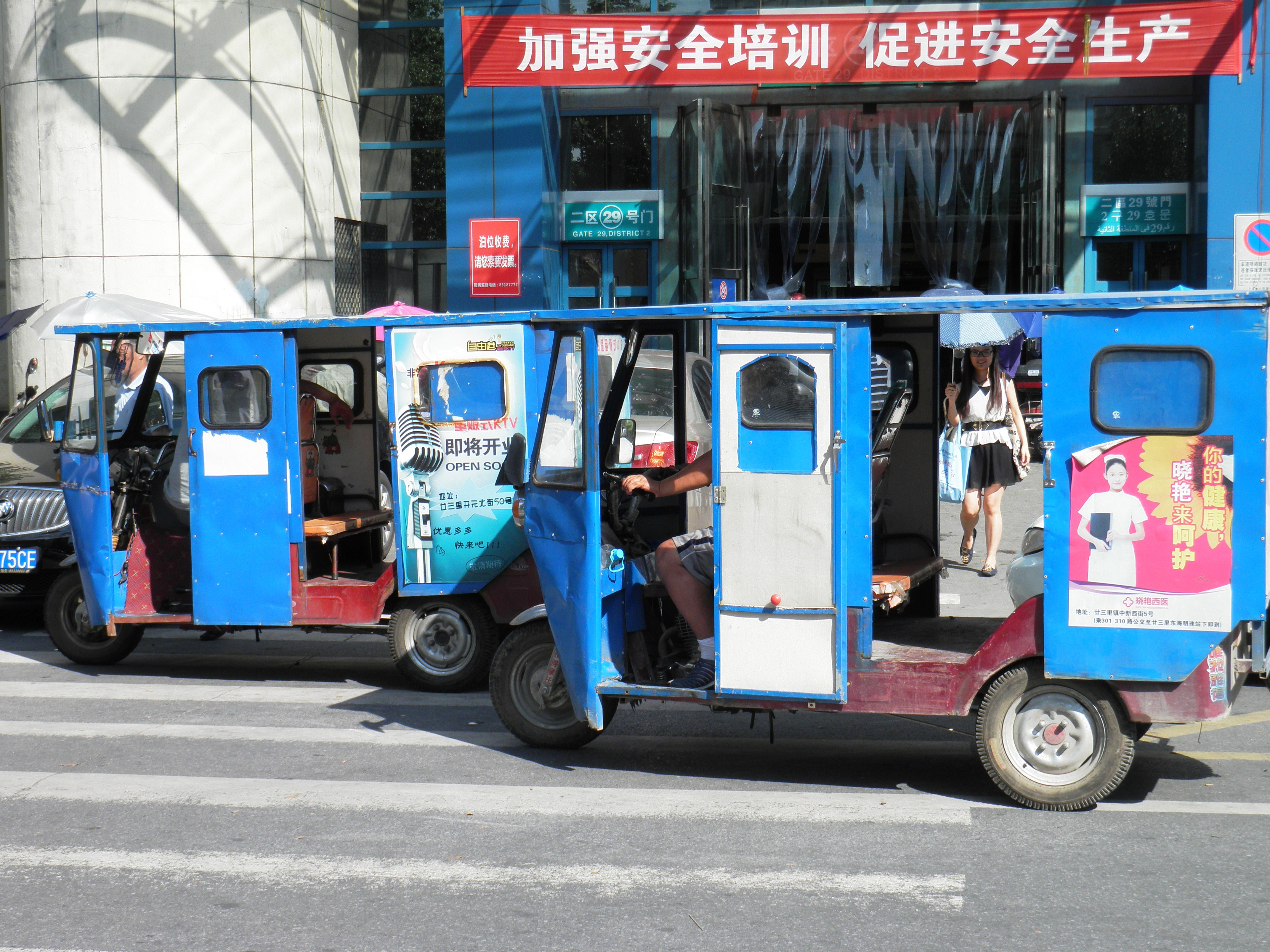 Rickshaw motorcycle